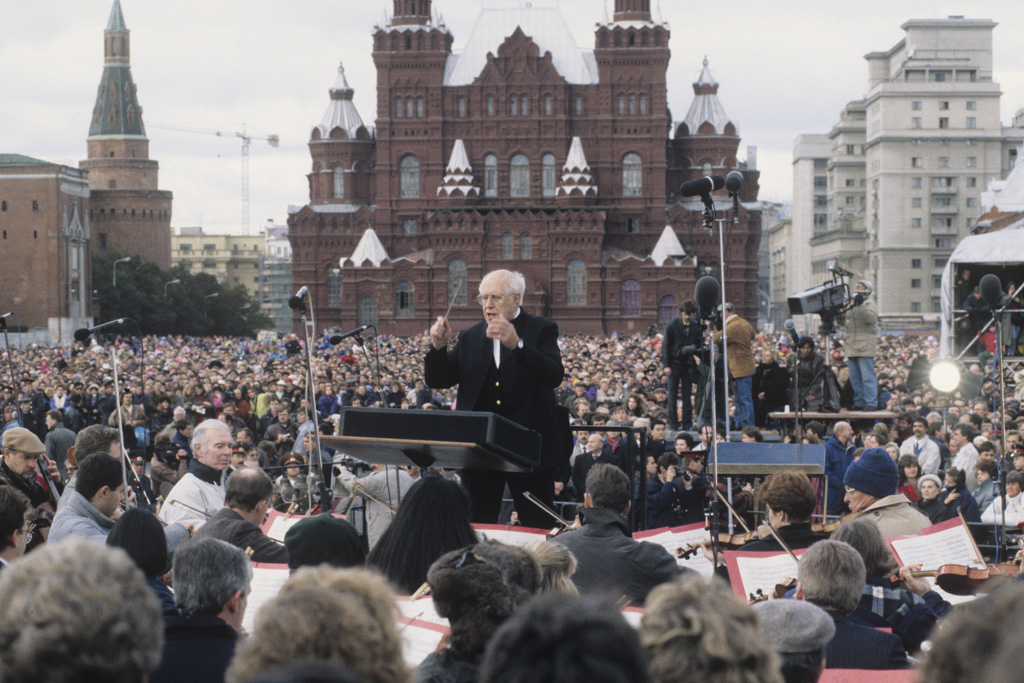 “Conductor Mstislav Rostropovich performs on Moscow's Red Square”. The US National Symphony Orchestra conducted by Mstislav Rostropovich performs on Moscow's Red Square. September 25, 1993.